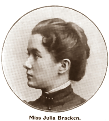 Artist Julia Bracken Wendt